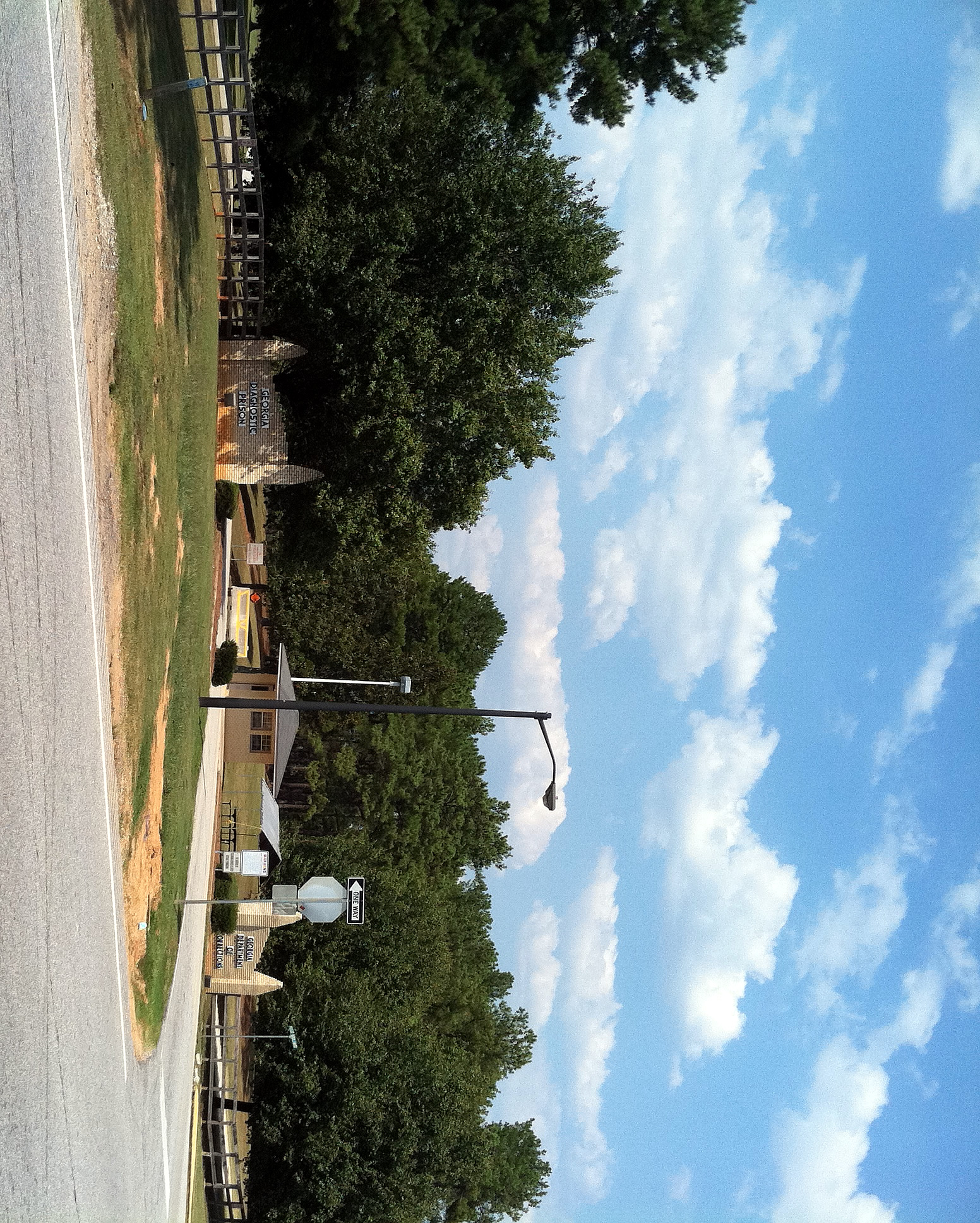 This is the road sign at the Georgia Diagnostic and Classification State Prison in Butts County, Georgia. Photographed by NeilATL on 9/14/2011